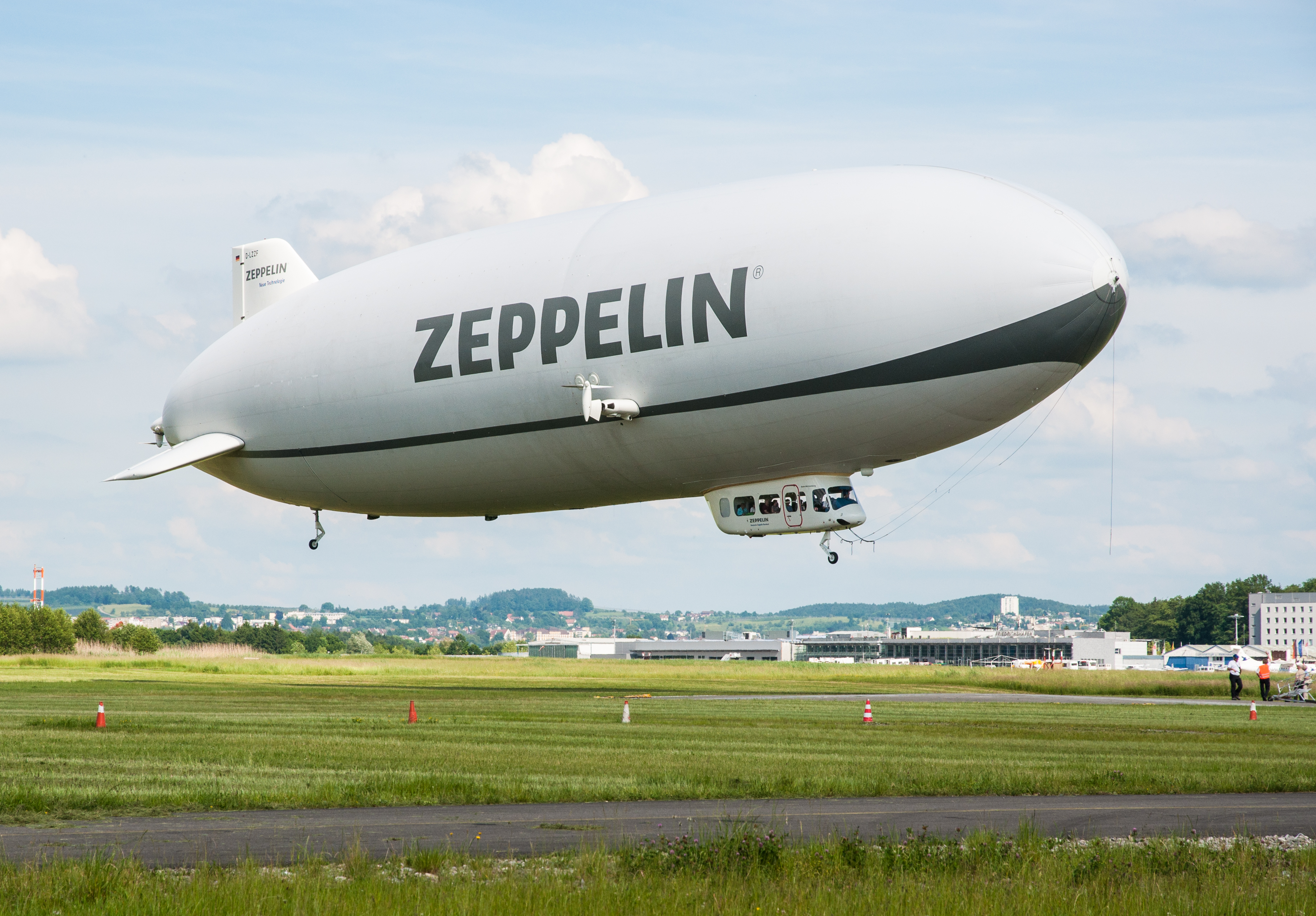 Airship D-LZZF Baden-Württemberg, a Zeppelin NT, shortly after the takeoff in Friedrichshafen, district Bodenseekreis, Baden-Württemberg, Germany